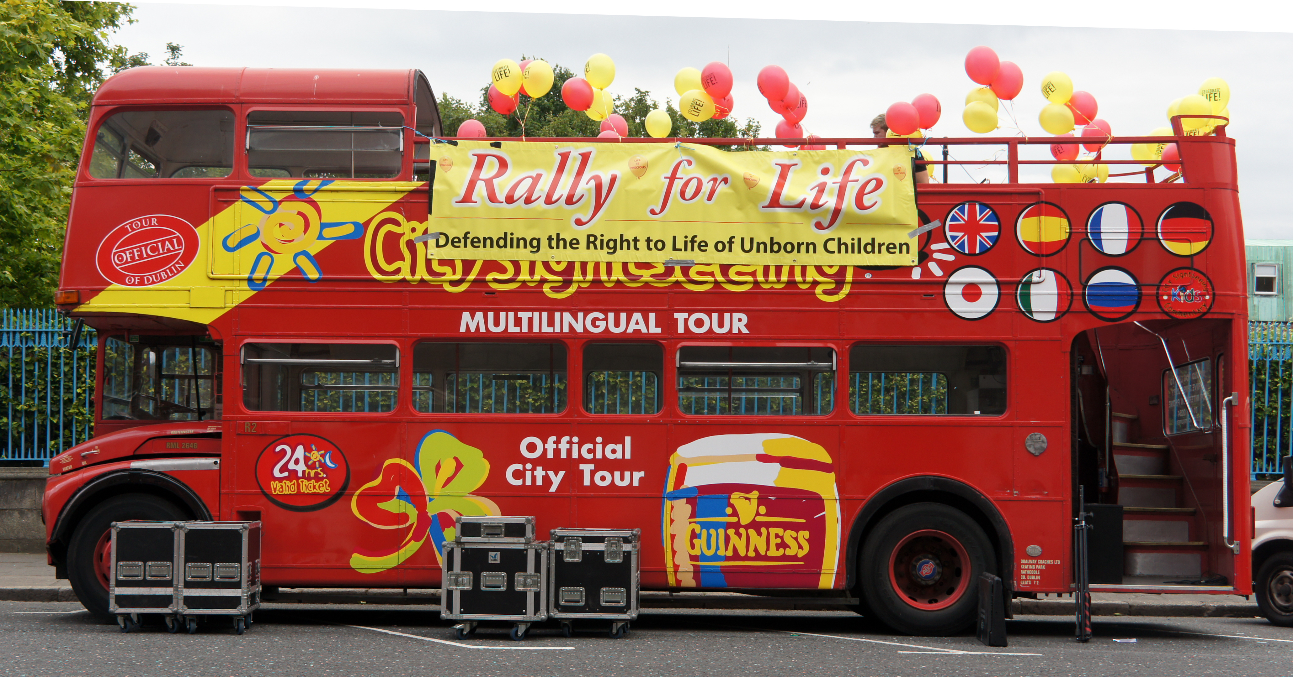 Dualway Coaches open top Routemaster bus RML2646 (reg. ZV 7738, ex-NML 646E), pictured in Dublin. Normally used on (and painted for) the Dublin City Sightseeing tour, it's pictured here during a pro-choice rally held in Dublin, organised by Belfast based group, Precious Life.